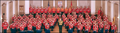 President's Own Marine Corps band